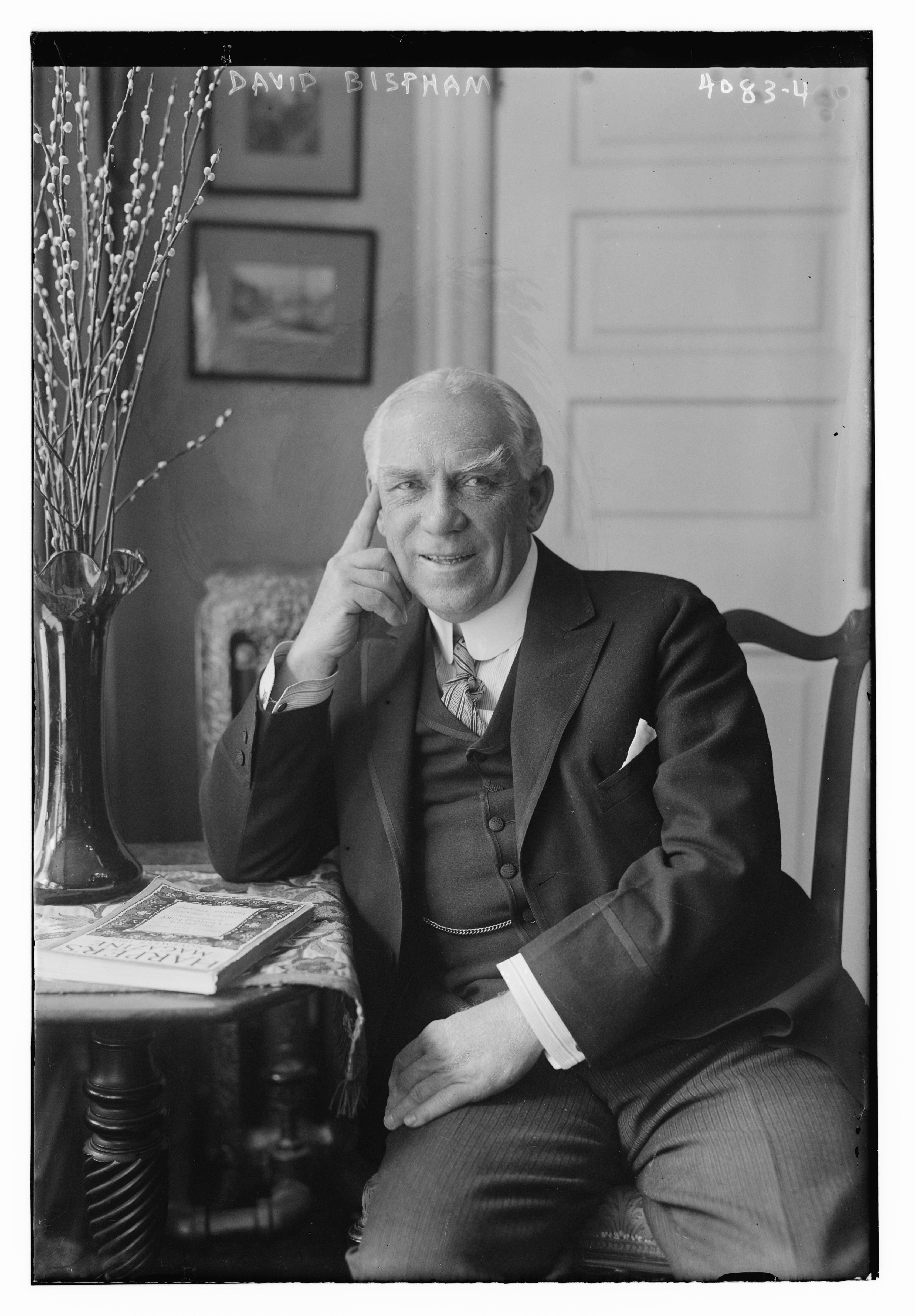 David Scull Bispham in 1916